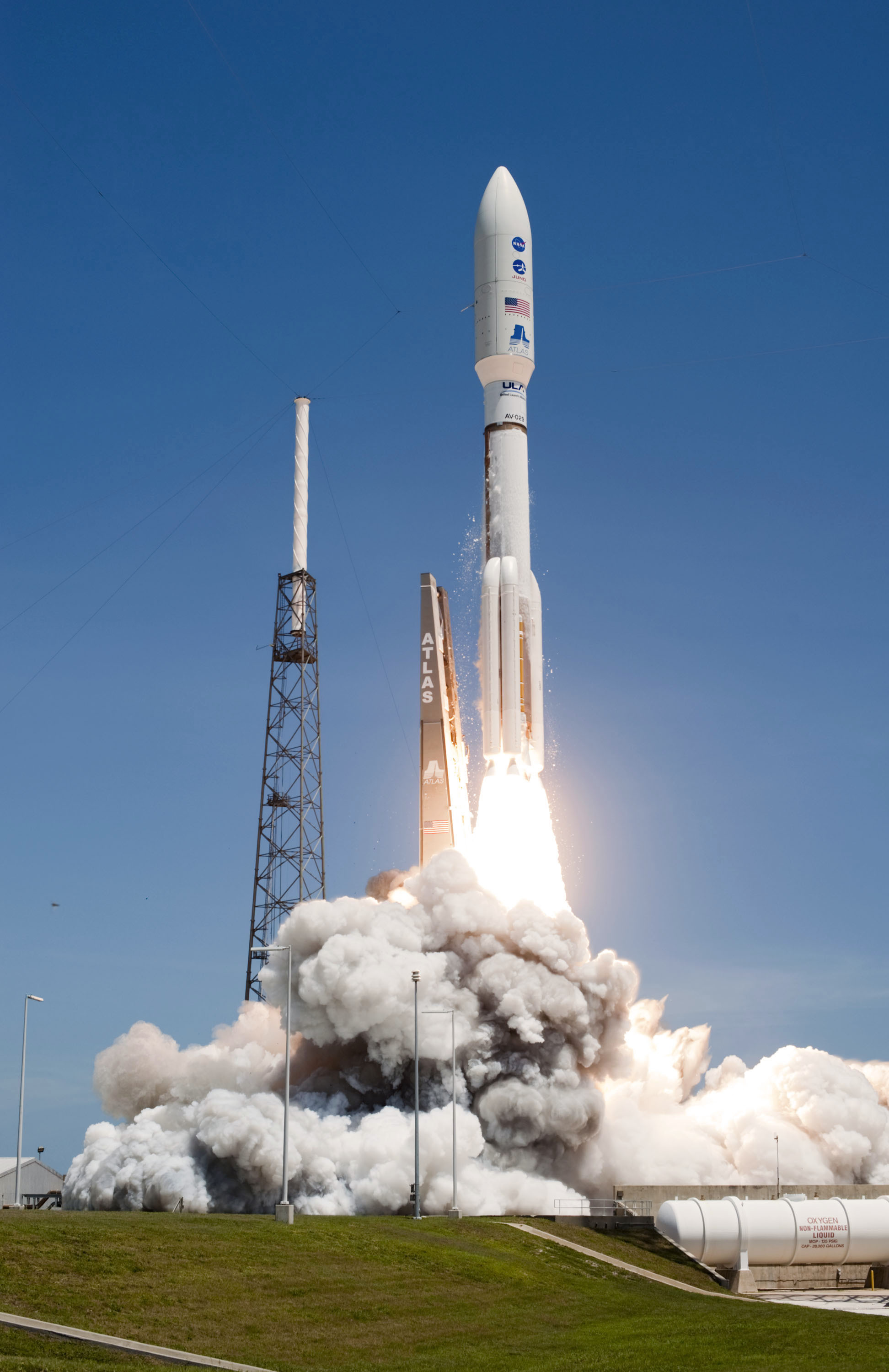 CAPE CANAVERAL, Fla. -- Rising from fire and smoke, NASA's Juno planetary probe, enclosed in its payload fairing, launches atop a United Launch Alliance Atlas V rocket. Leaving from Space Launch Complex 41 on Cape Canaveral Air Force Station in Florida, the spacecraft will embark on a five-year journey to Jupiter. Liftoff was at 12:25 p.m. EDT Aug. 5. The solar-powered spacecraft will orbit Jupiter's poles 33 times to find out more about the gas giant's origins, structure, atmosphere and magnetosphere and investigate the existence of a solid planetary core. For more information, visit